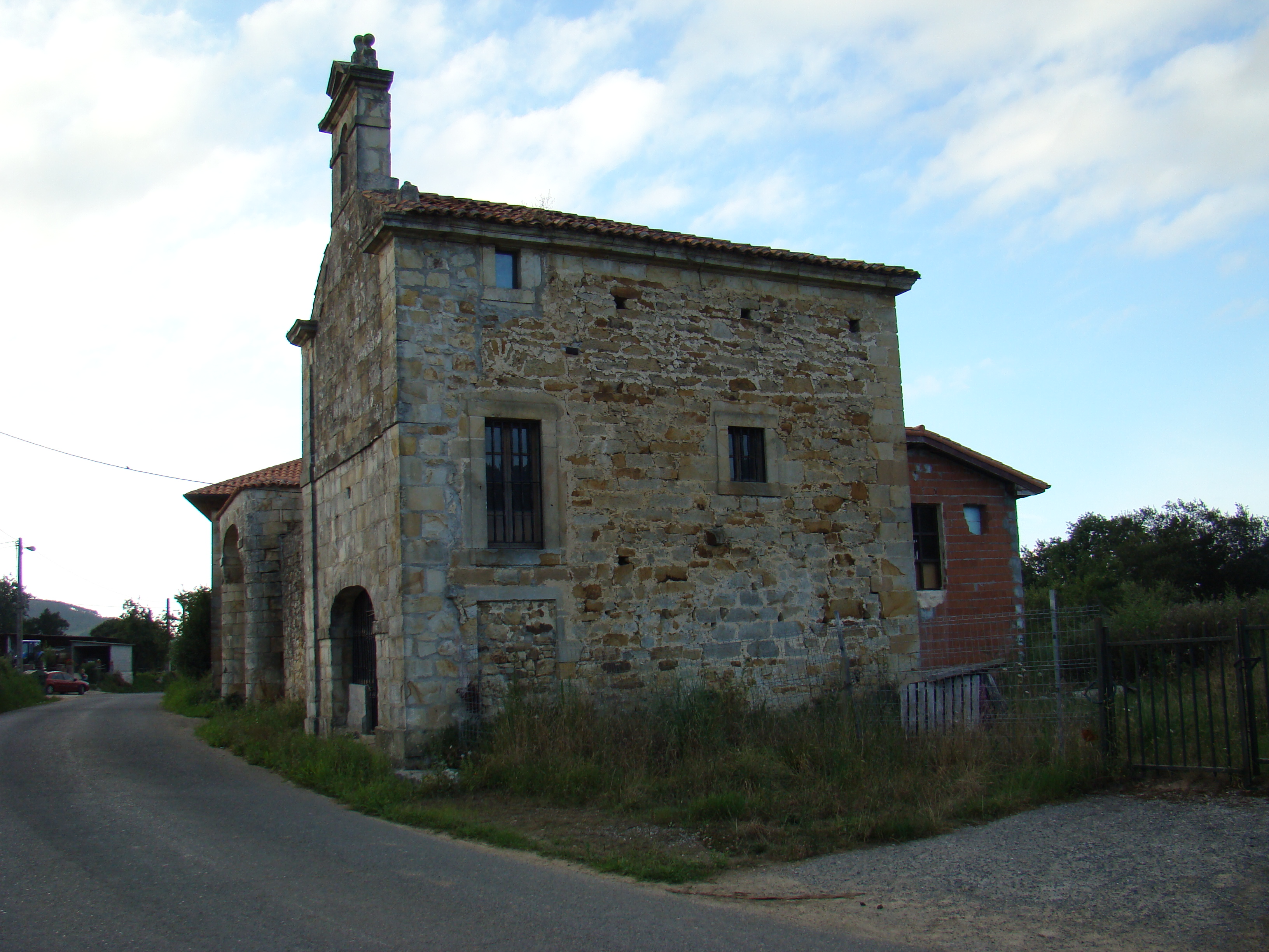 Hermitage of the Christ in the suburb of "El Cristo" (The Christ) in Bárcena de Cicero (Cantabria, Spain). It belonged to the family house of the Valle-Rozadilla.